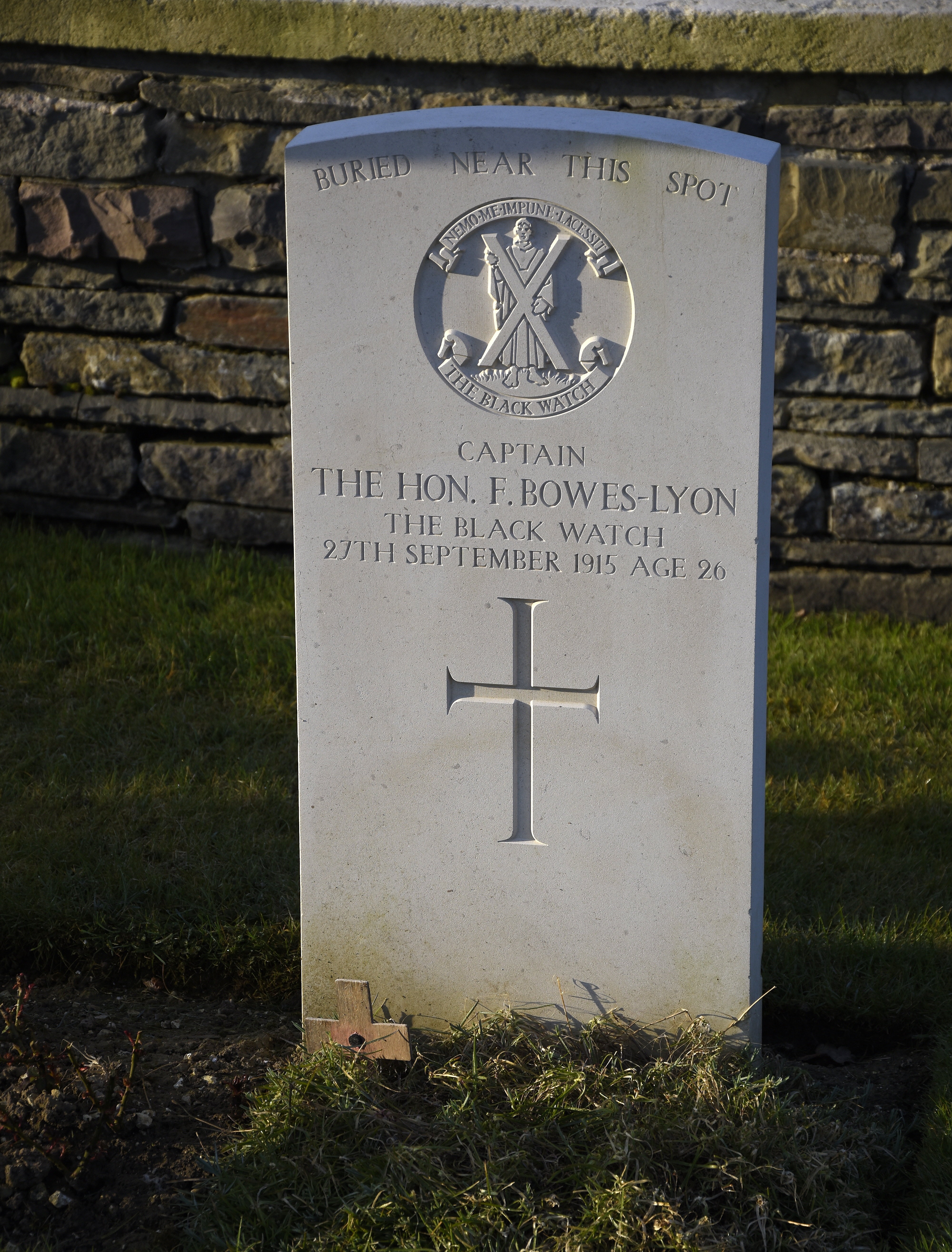 Grave of captain Fergus-Bowes-Lyon, brother of the Queen Mother - Vermelles - Quarry cemetery, France